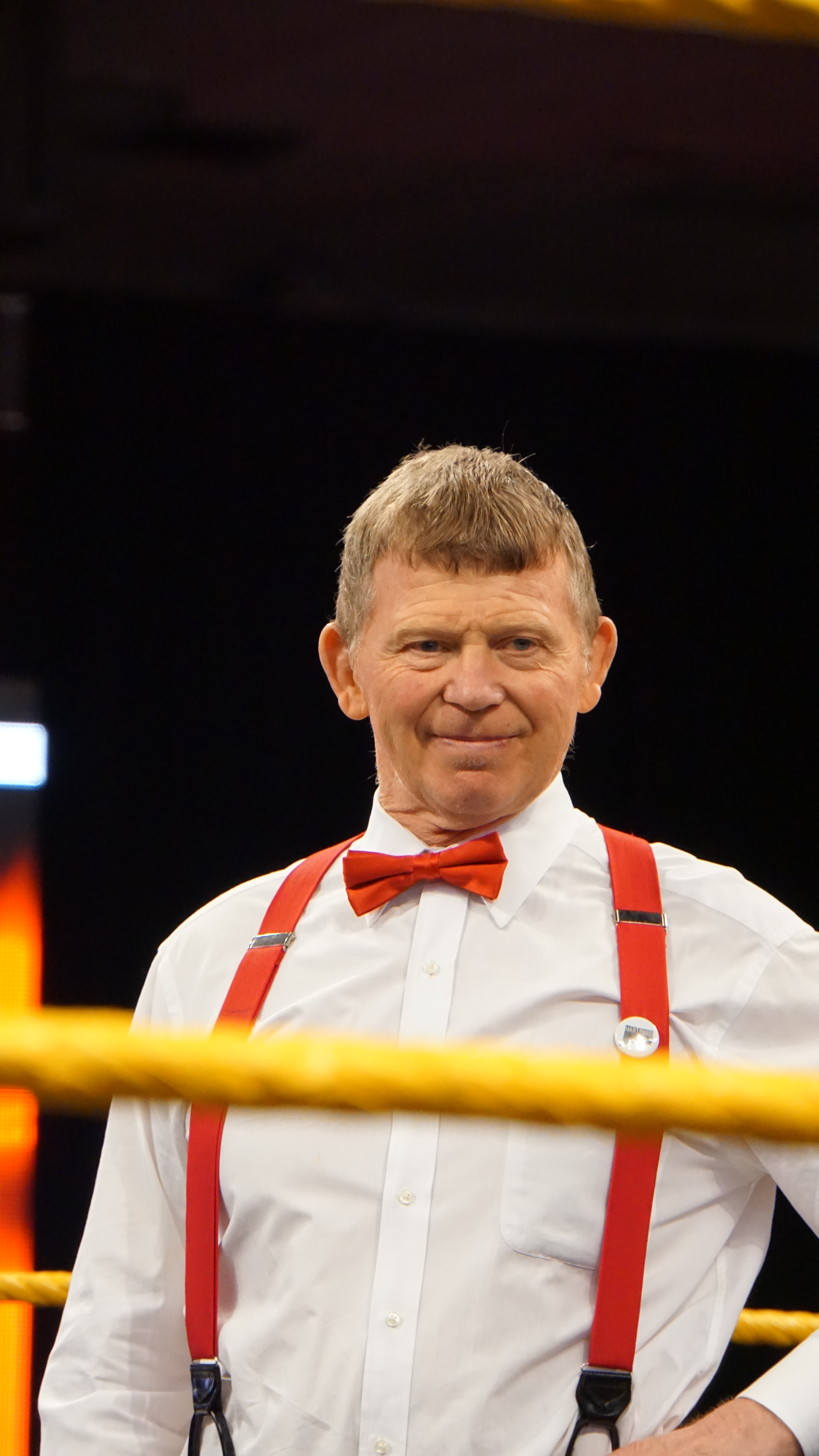 2015-03-28_08-57-39_ILCE-6000_DSC04379